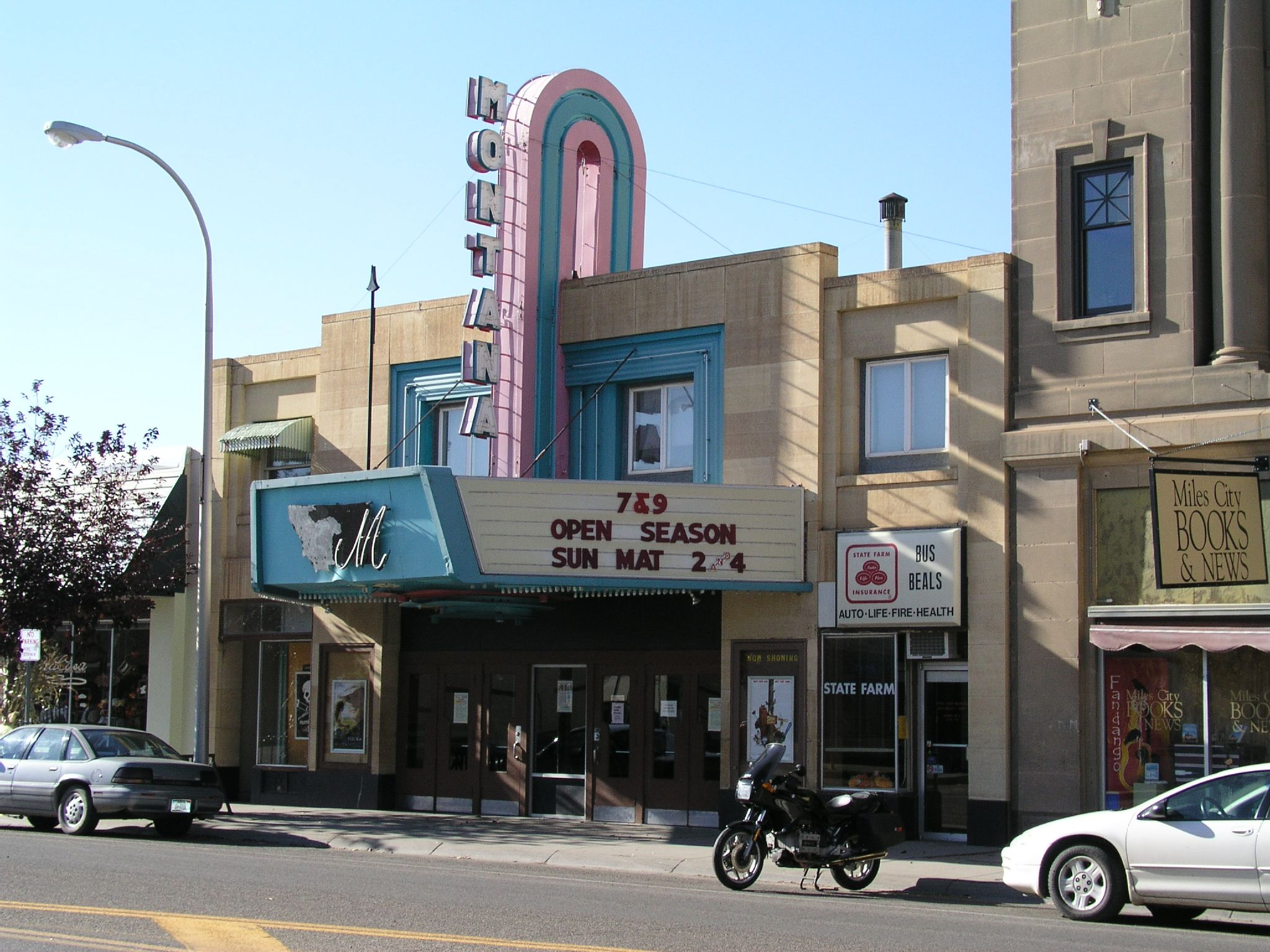 The Montana Theatre, 905 Main Street, and State Farm Insurance Bus Beals Agency, 905 Main Street, Miles City, Montana.